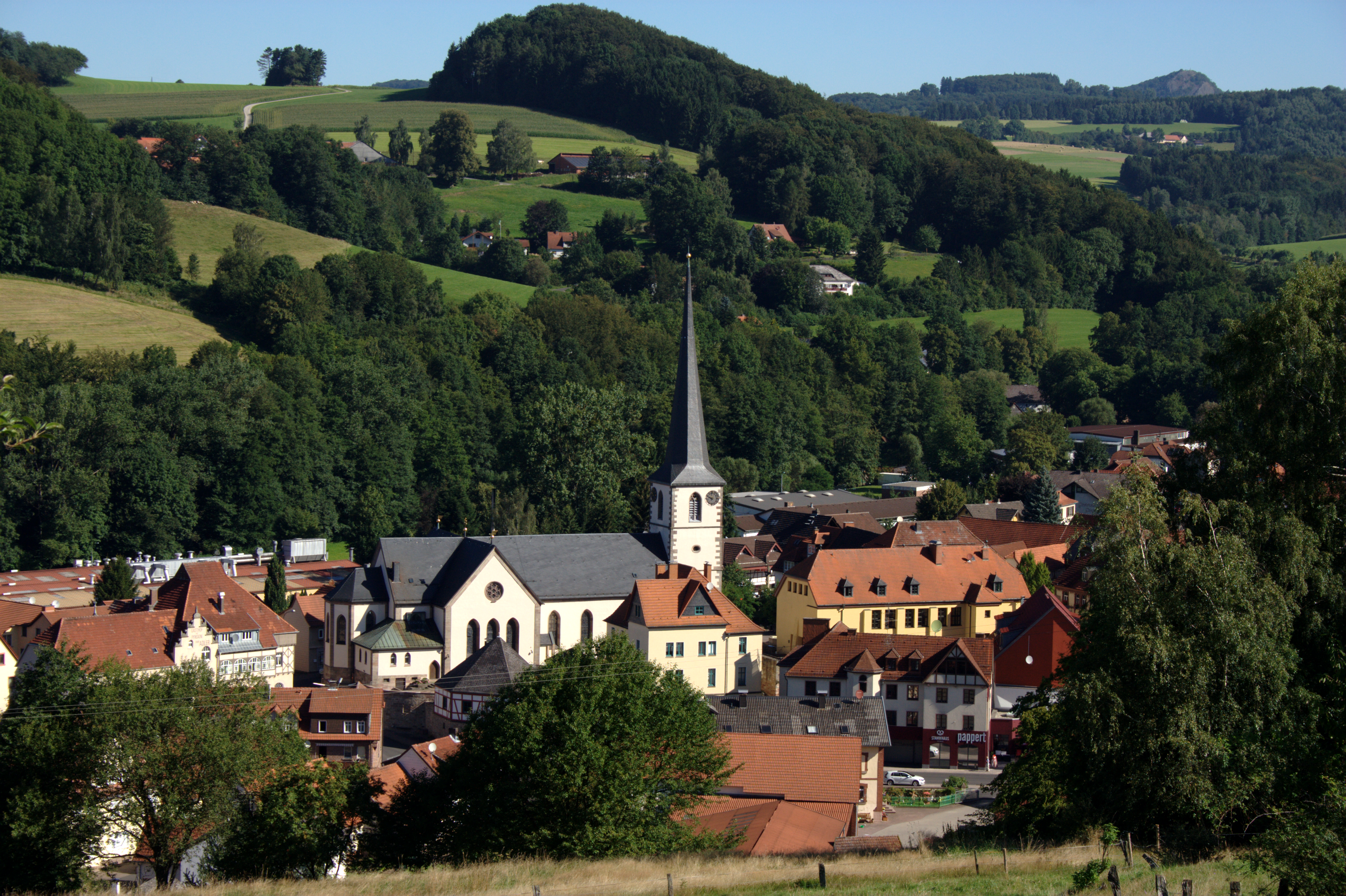 Panoramic view of Poppenhausen Wasserkuppe, Hesse, Germany